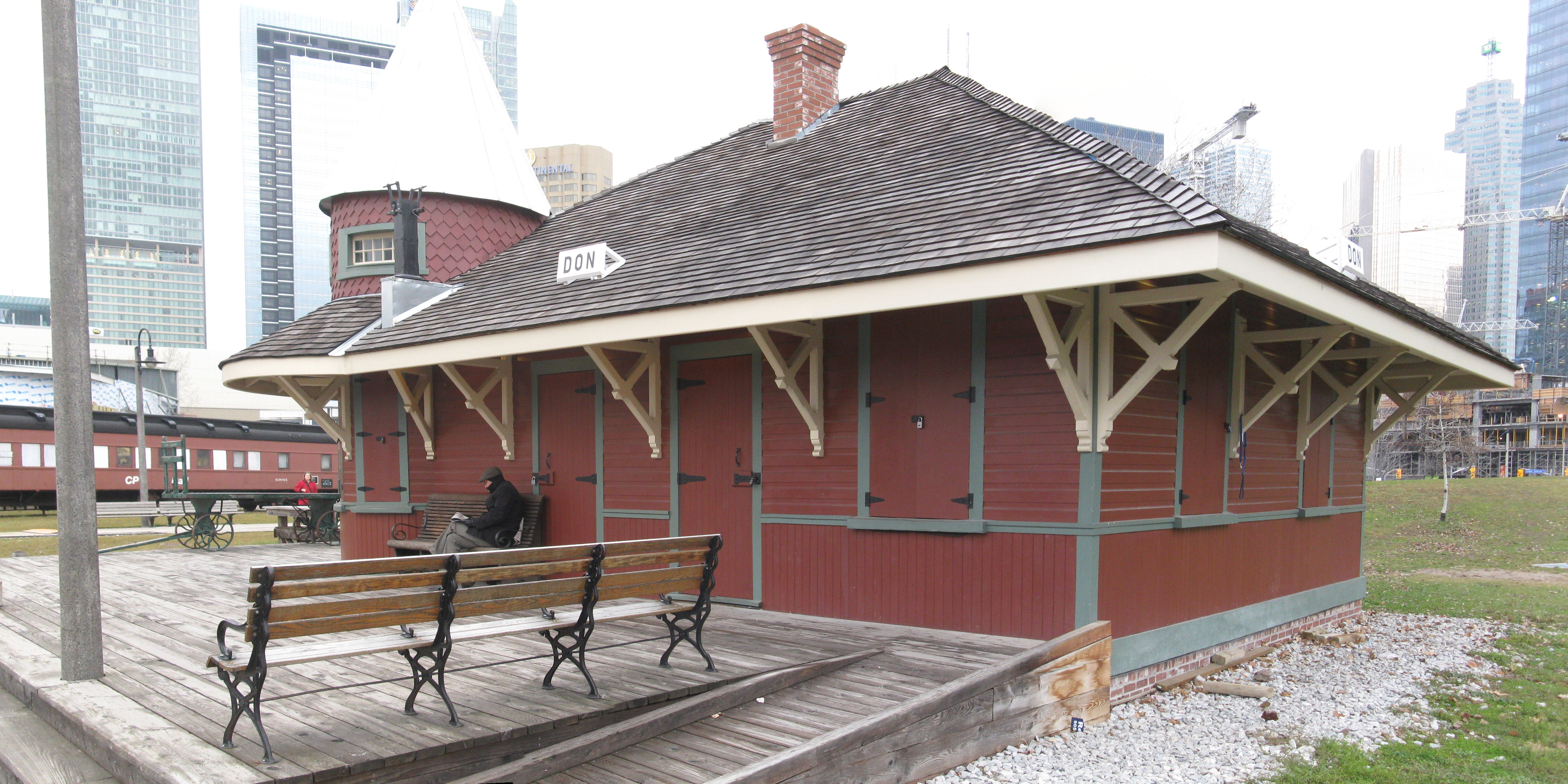 Little train station moved to the John Street Roundhouse Museum